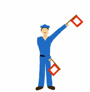 Letter X of the nautical semaphore flag signalling system Source: Martin Hawlisch (User:LosHawlos) My own drawing done in gimp First uploaded to de: in jun-2004